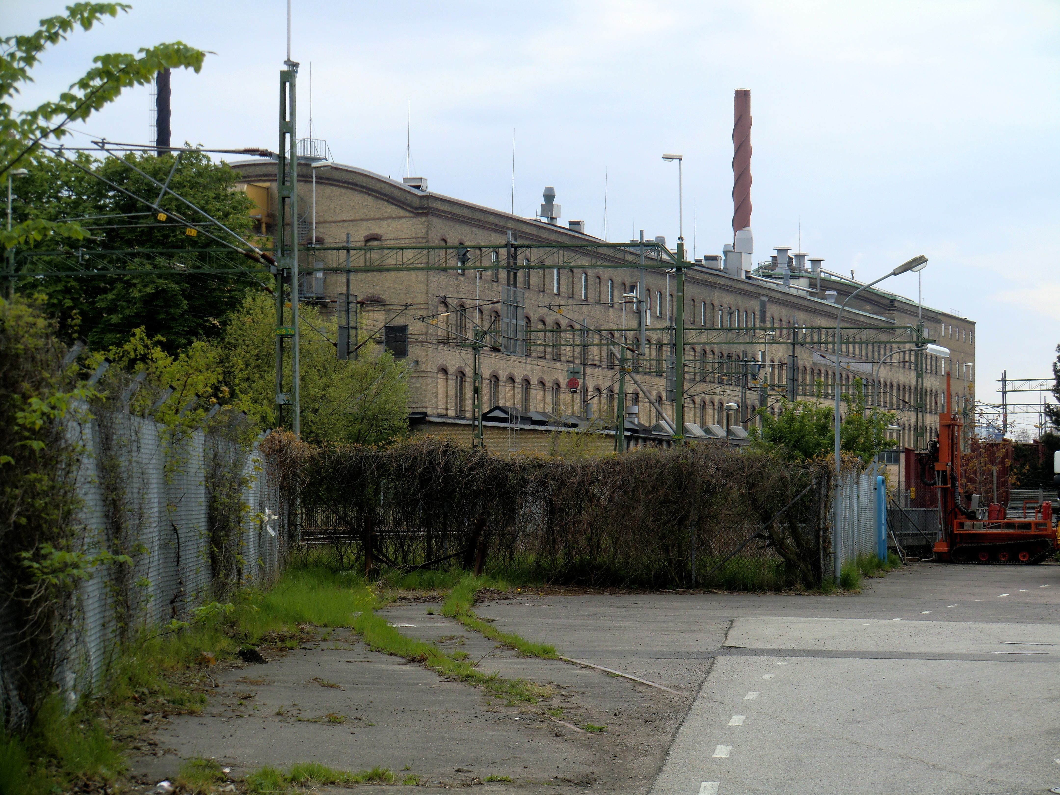 The sugar factory, Arlöv, Burlöv Municipality, Sweden.